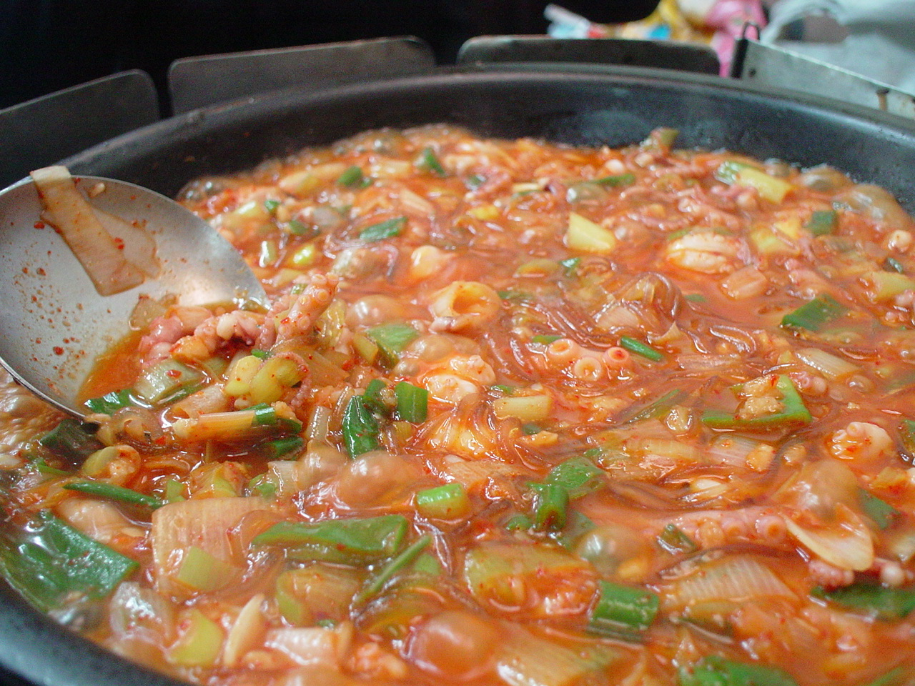 Nakji_bokkeum, stir-fried small octopus marinated in gochujang-based sauce in Korean cuisine